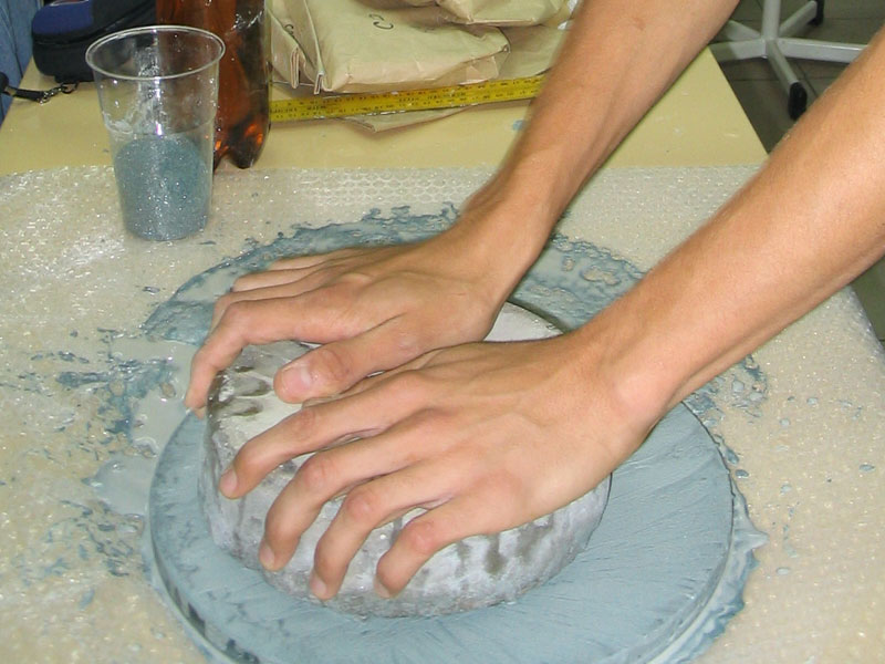 Grinding a mirror - draging the tool over 300 mm glass. Photo taken during "ATM Korenica 2006", in Croatia.